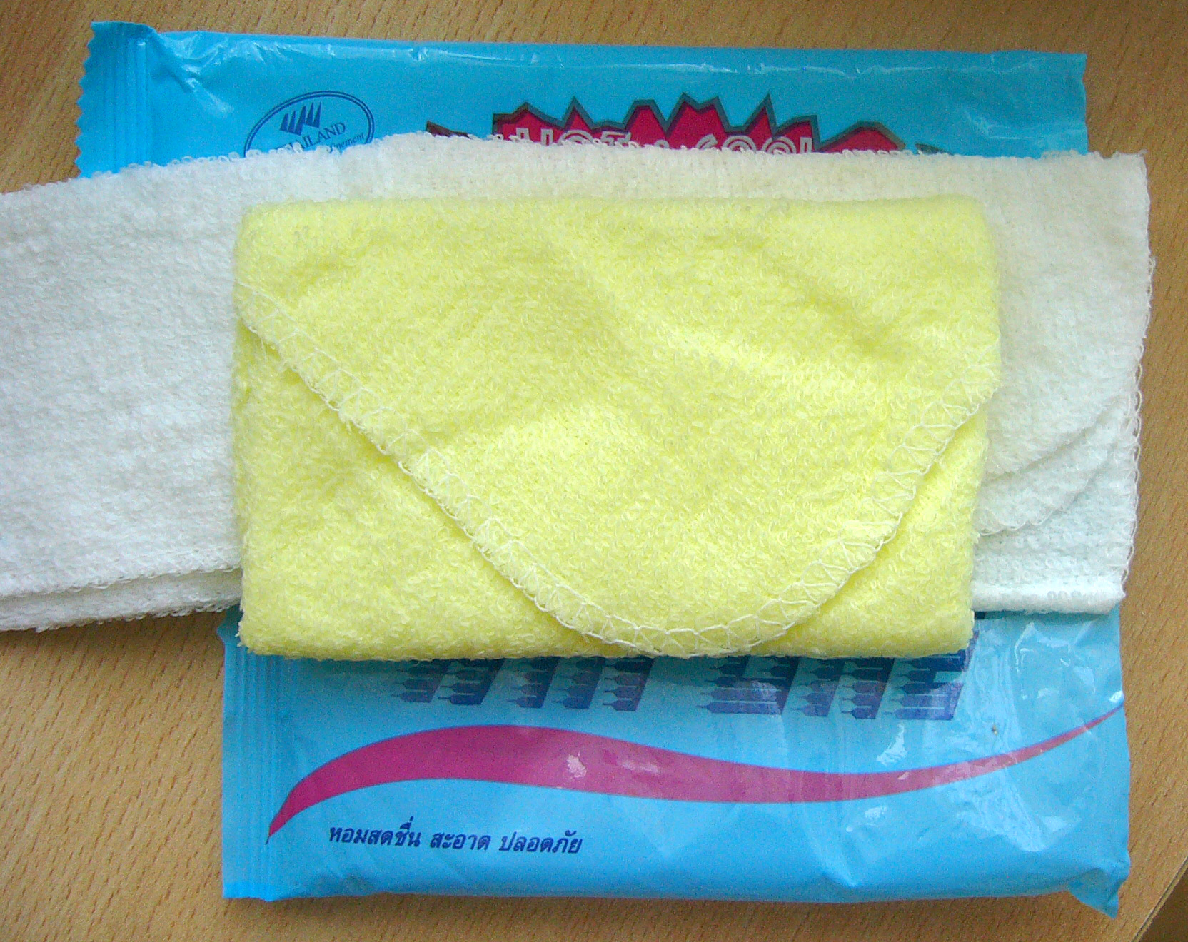 Wet wipes (2 Thai models)